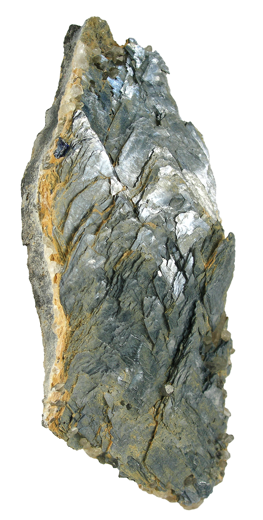 Baricite Locality: Rapid Creek, Dawson Mining District, Yukon Territory, Canada (Locality at ) This is a very rich specimen of this rare phosphate, only seldom seen even at these rich phosphate localities in the remote Yukon. The specimen features lustrous, metallic crystals of a slightly blue-gray color , arranged in plates one atop the other. It is a very rich, extremely showy example of this species. The phosphate deposits of the Yukon are one of the world's great sources of a suite of rare phosphate species, and the Ordway collection was known for them over the years. This particular piece shows extremely good crystals, including an aesthetic staggering of the terminations to make a beautiful piece, overall. Self-collected by Al Ordway in the 1970s. 9.8 x 4.7 x 1.5 cm.